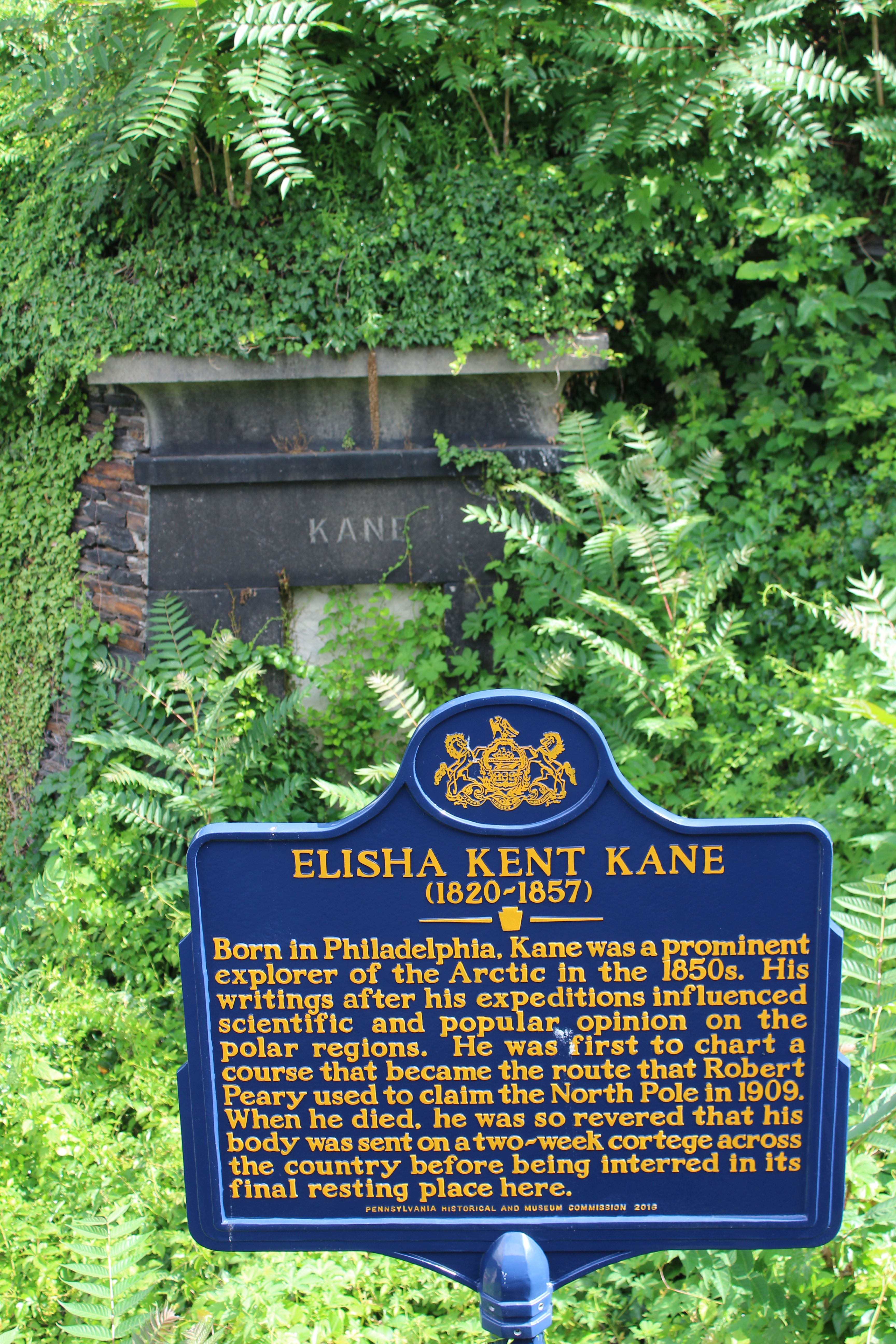 Elisha Kent Kane mausoleum and historical plaque in Laurel Hill Cemetery. Photo taken June 2020.